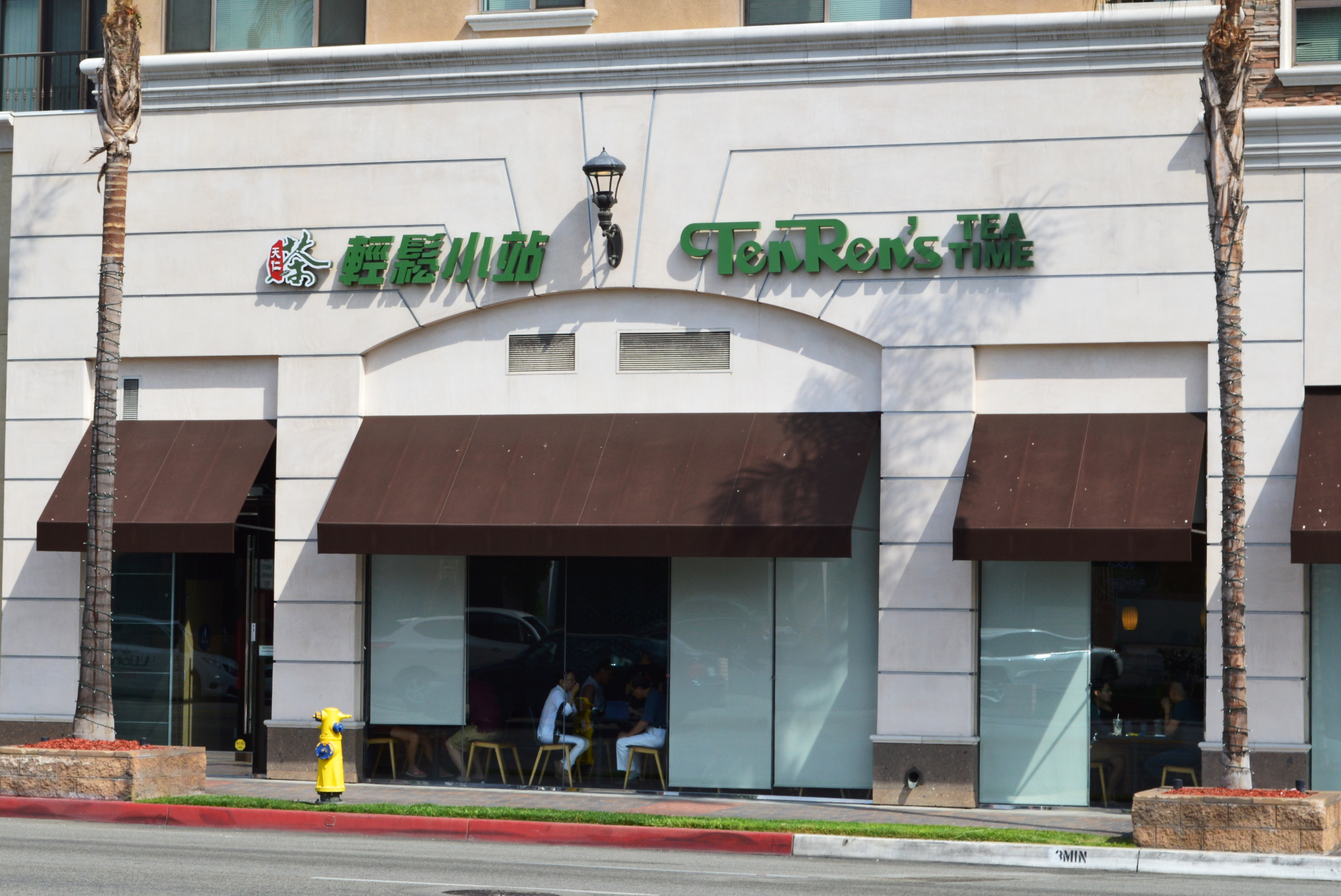 TenRen's Tea Time at Atlantic Times Square in Monterey Park, California.